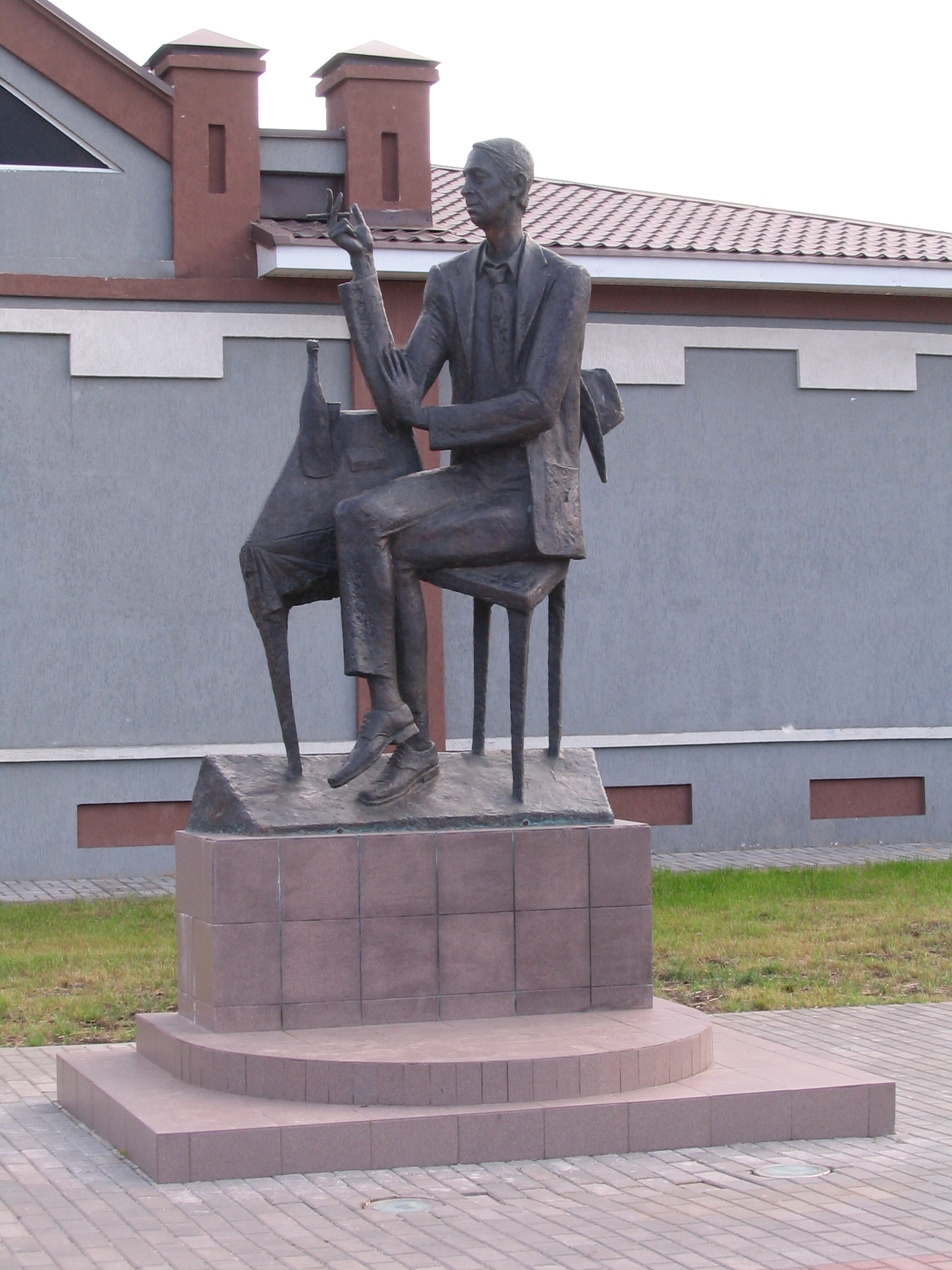 Monument to the singer and musician Arcady Severny in Ivanovo (Russia)